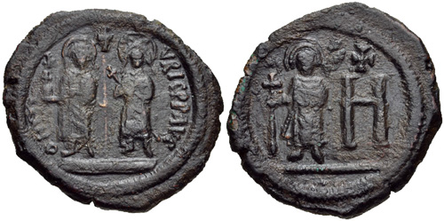 Maurice Tiberius, with Constantina and Theodosius. 582-602. Æ Follis – 8 Pentanummia (31mm, 13.95 g, 1h). Cherson mint. Struck 584-602. ∂ N m A VRIC P P AVG, Maurice and Constantina standing facing on dais, both nimbate, holding globus cruciger and cruciform scepter, respectively; above, cross between / Large H; to left, Theodosius standing facing, nimbate, holding long cross; cross above. DOC 303.2; MIB 157a; SB 607. VF, dark green-brown patina, light scratch on obverse.